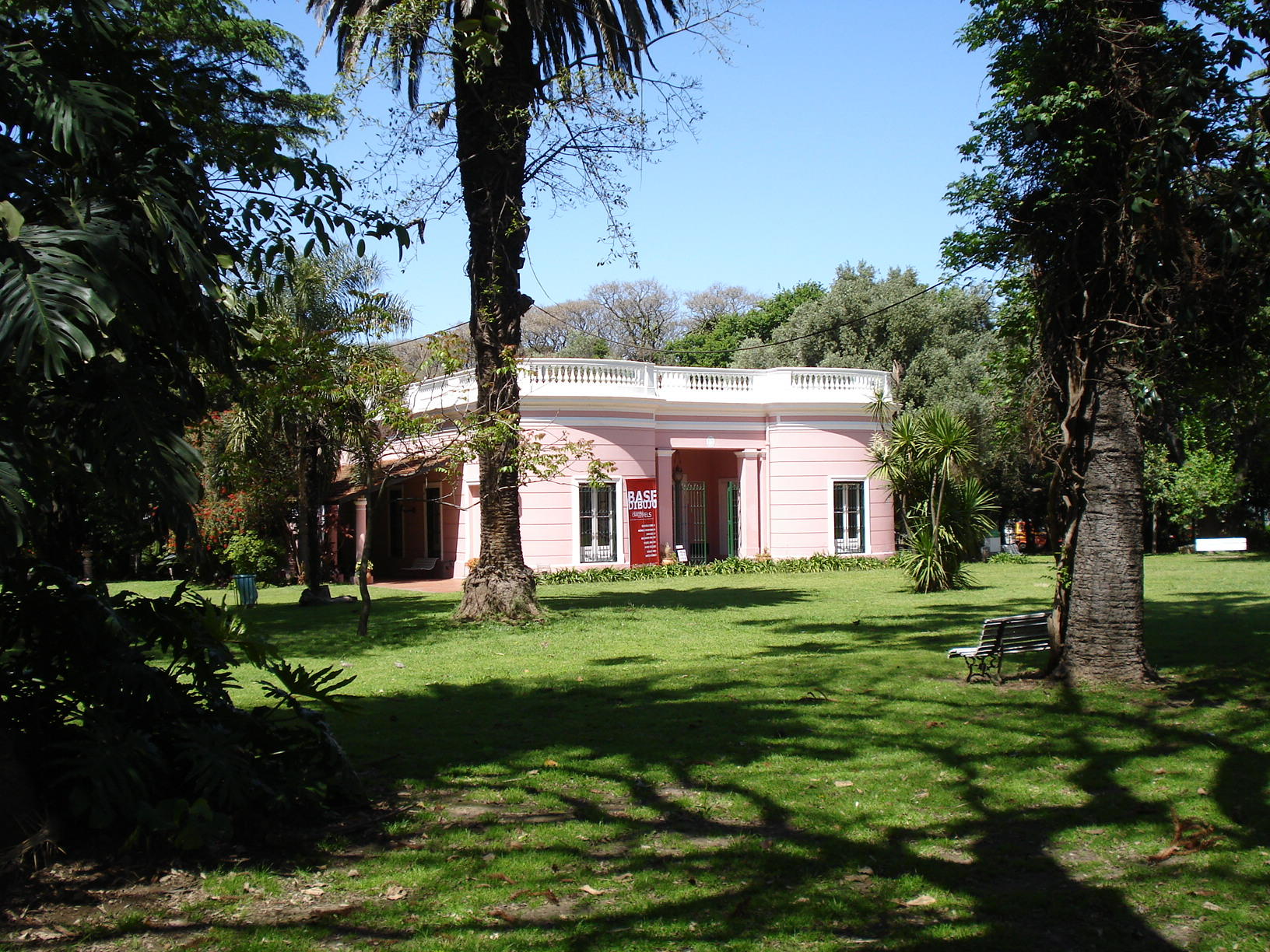 Quinta Trabucco, in Florida, Buenos Aires province, Argentina.